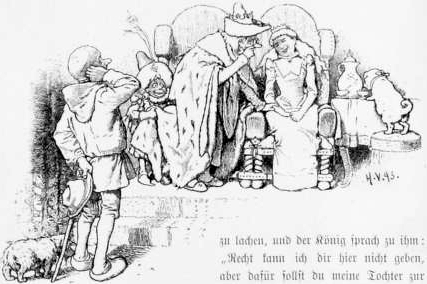 illustration of the Brothers Grimm fairy tale "The Good Bargain"